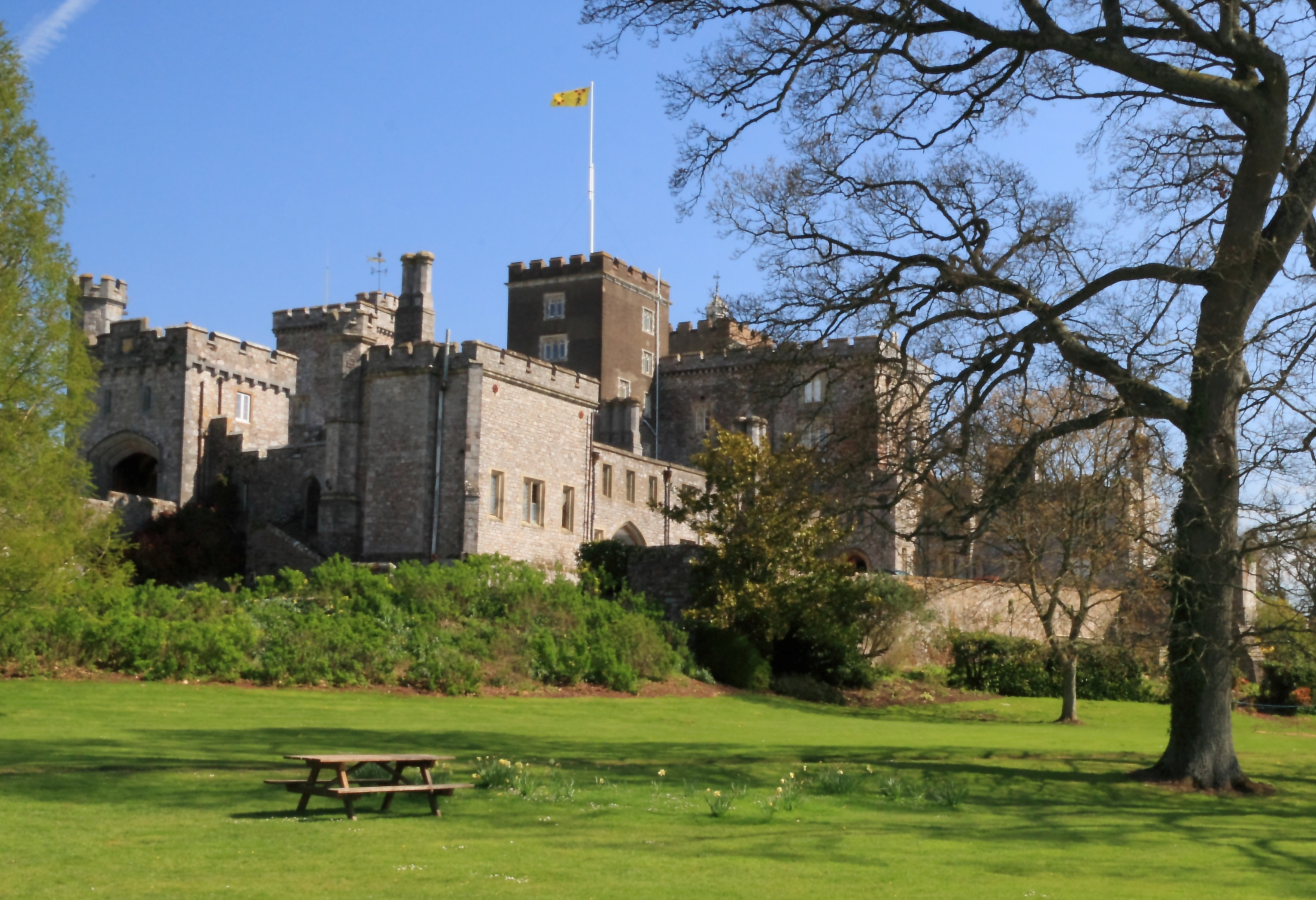 Powderham Castle seen from the south west